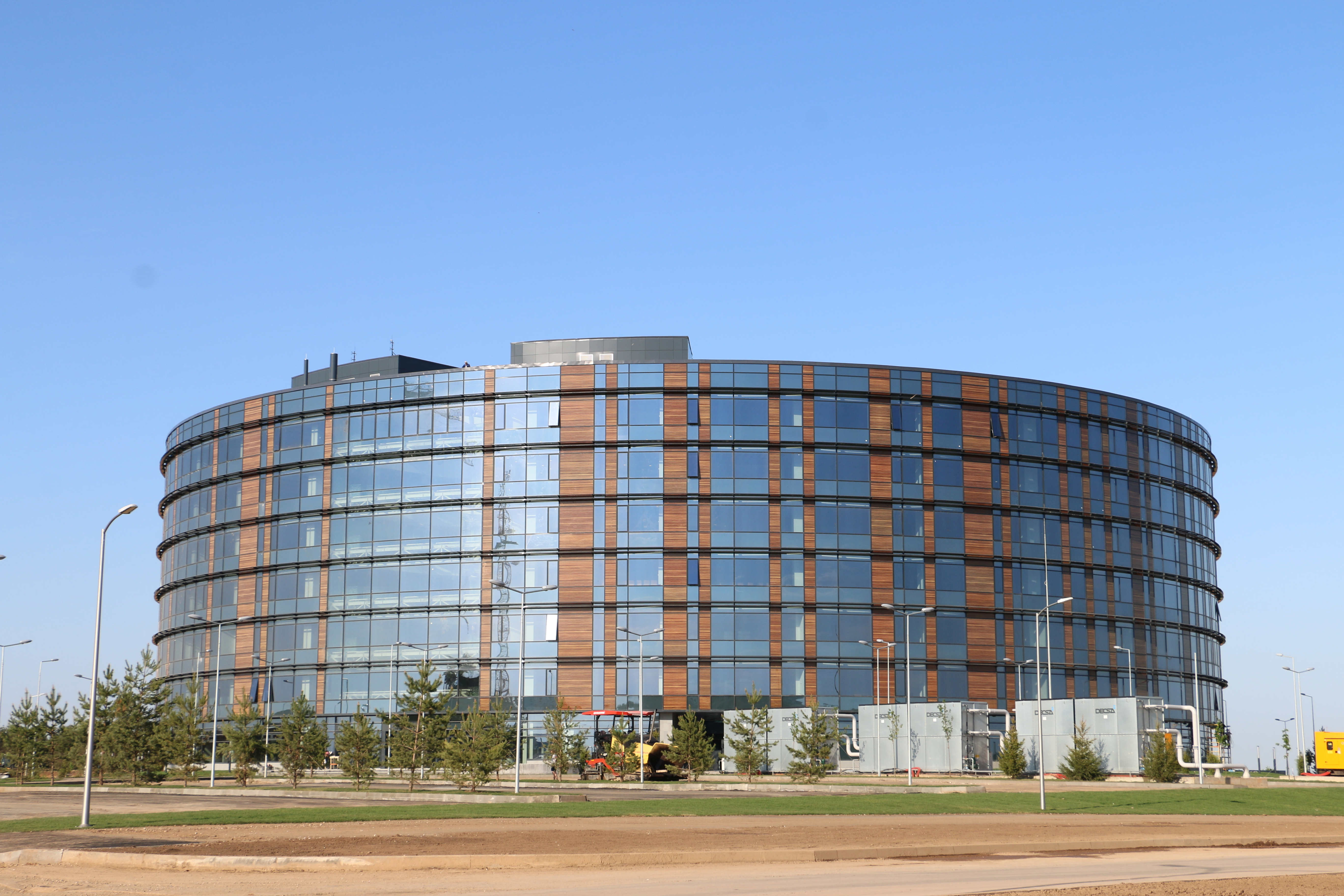 Innopolis. Tekhnopark named A. S. Popov.